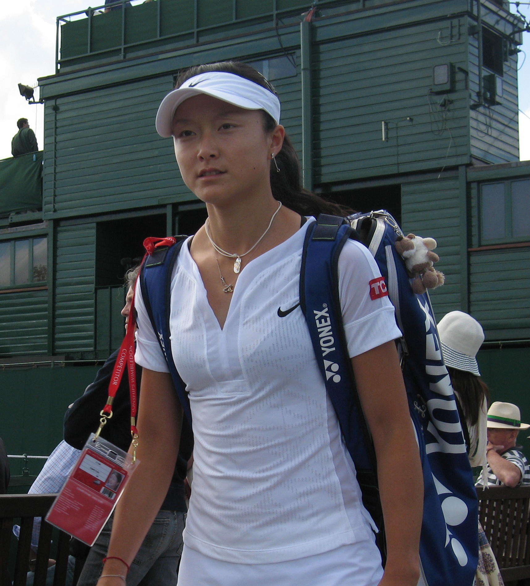 Yan Zi walking into her 2008 Wimbledon 1st round doubles match.